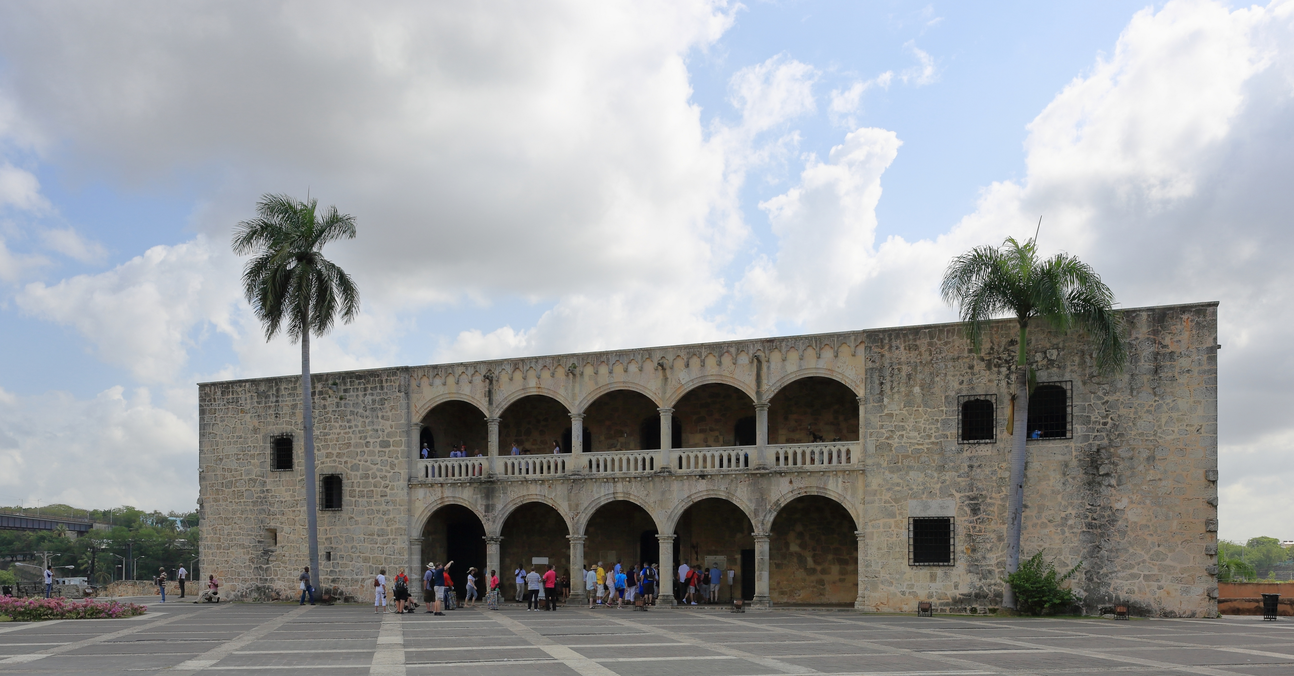 Santo Domingo - Alcázar de Colón, March 2016, part of UNESCO World Heritage Site Ref. Number 526